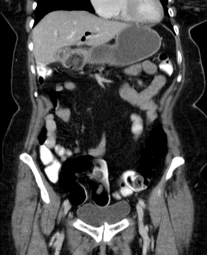 This image is part of a series which can be scrolled interactively with the mousewheel or mouse dragging. This is done by using Template:Imagestack. The series is found in the category Bouveret's syndrome - CT - MRI - case 001. Bouveret-Syndrom in der Computertomographie: Man erkennt den großen Gallenstein, der aus der Gallenblase in das Duodenum perforiert ist und jetzt den Magenausgang verlegt. Der Magen ist stark gefüllt und eine Hiatushernie wölbt sich dadurch noch mehr nach oben.